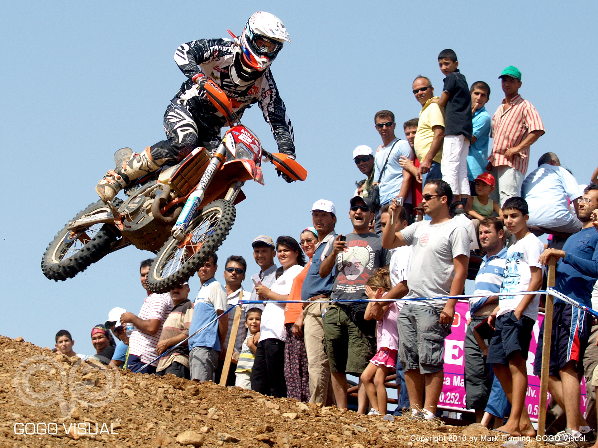 Pierre Alexandre Renet rides his KTM E2 bike at the 2010 World Enduro Championship Grand Prix of Turkey.